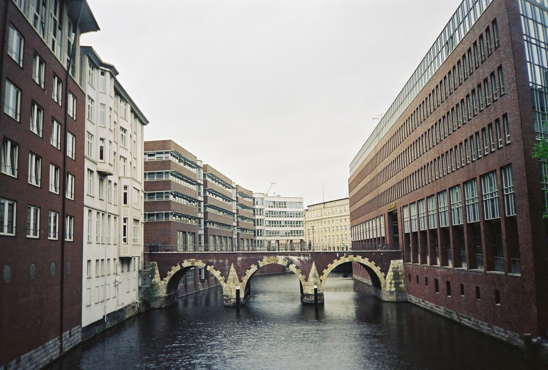 Hamburg near the Dock. This is a photograph of an architectural monument.